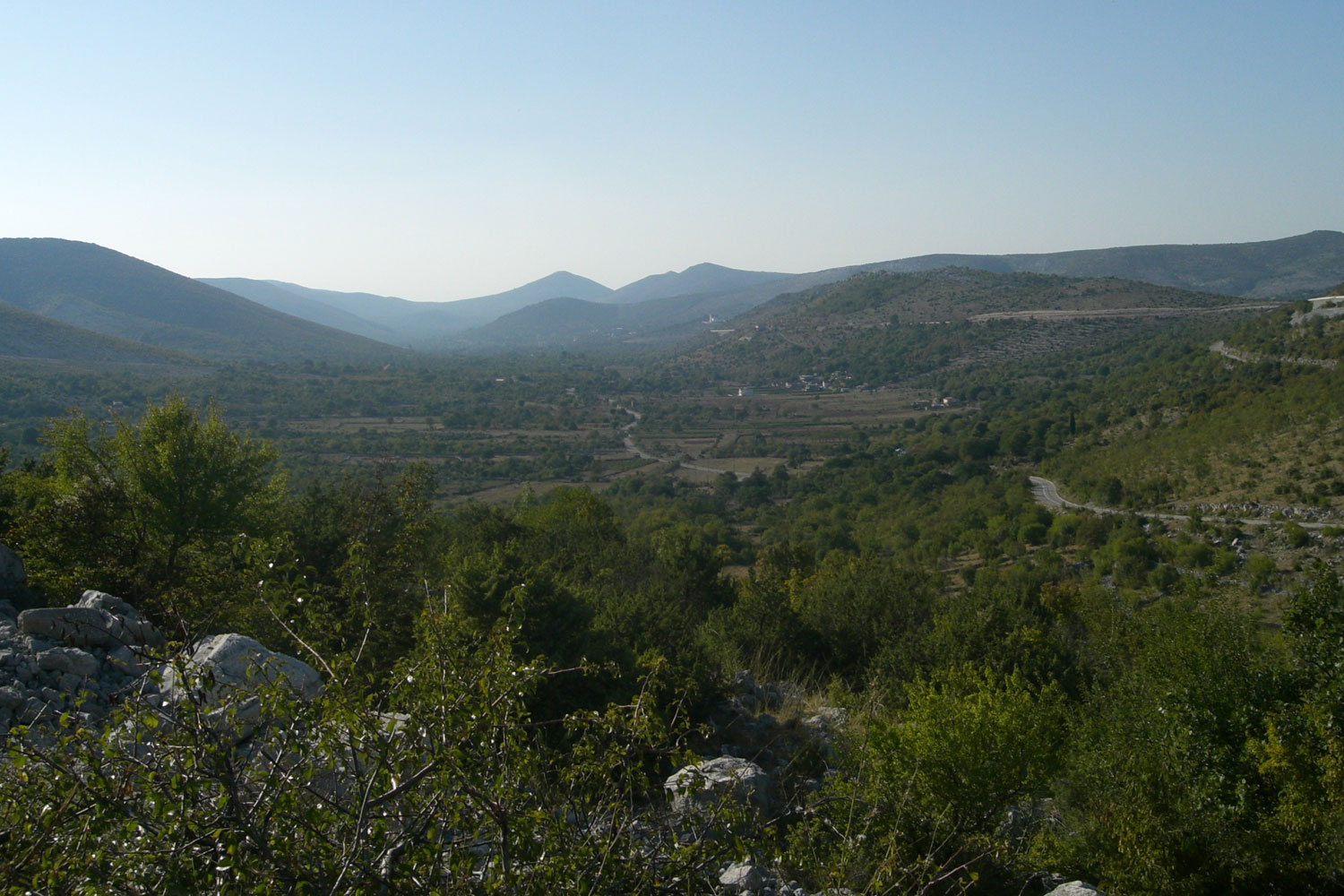 Primorski Dolac, view from southeast